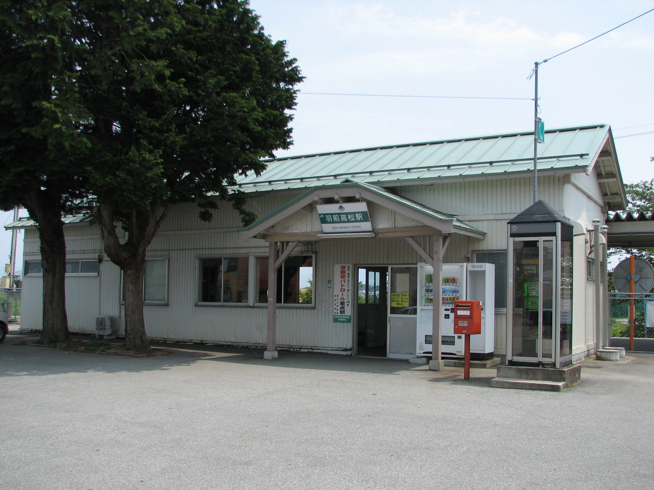 JR East Uzen-Takamatsu Station